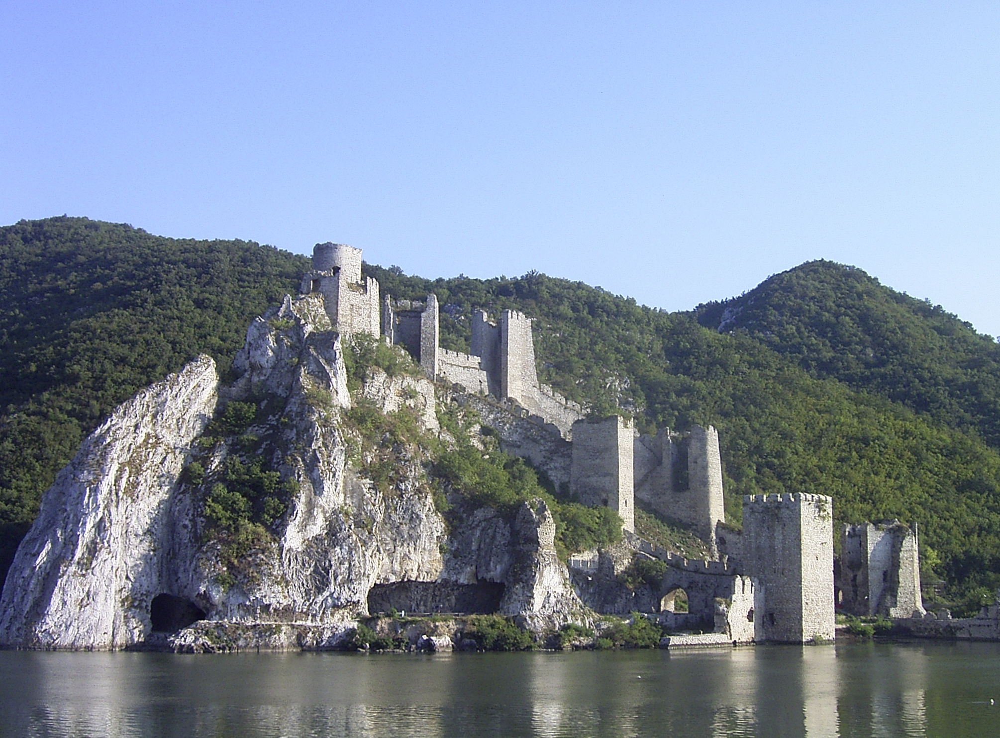 Golubac Fortress (Голубачки град, Golubački grad) in Golubac (Голубац), Serbia (Srbija).